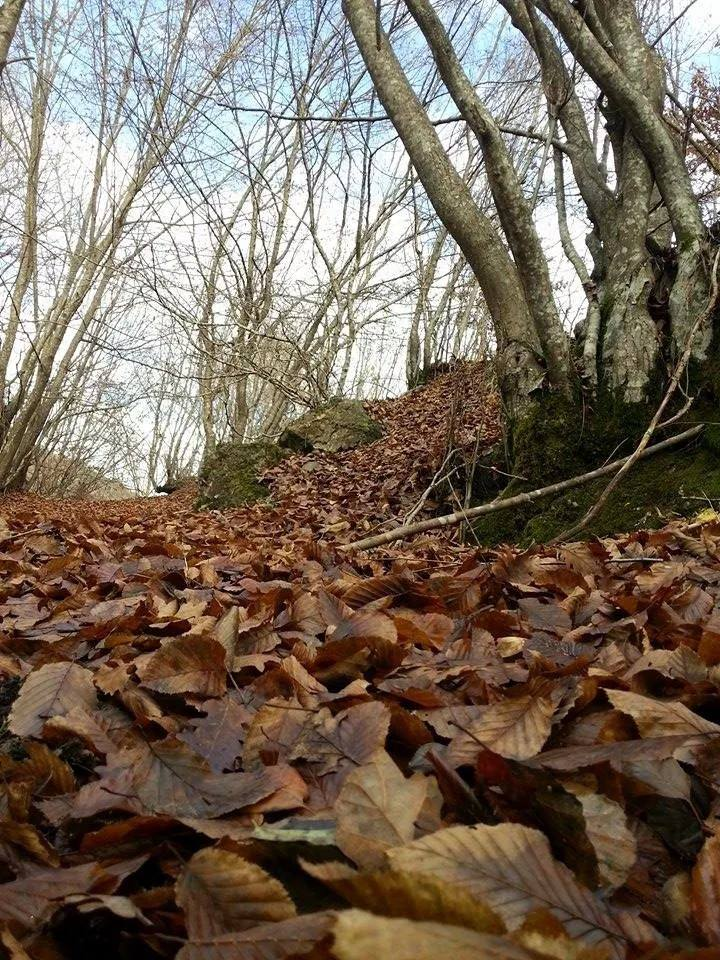 Pyje te reja ne rrethin e Hasit